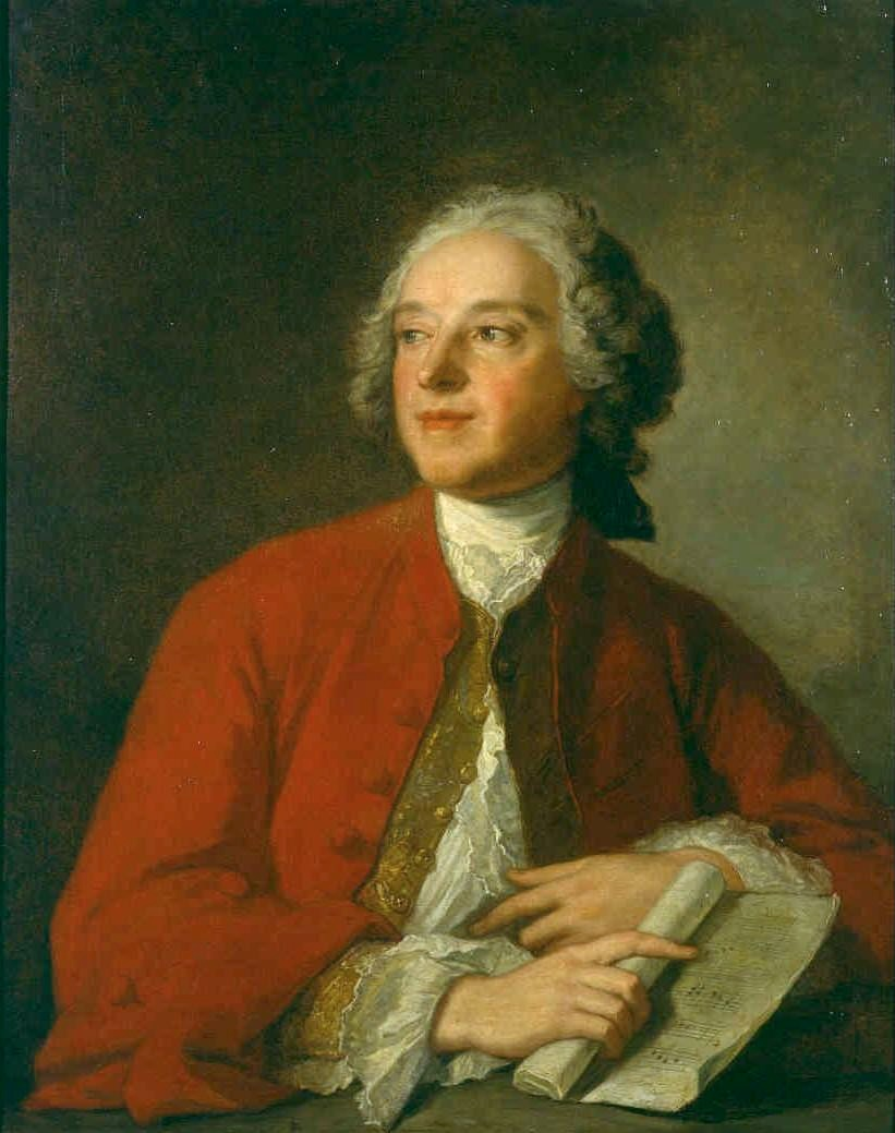 Depicted person: Pierre Augustin Caron de Beaumarchais (1732–1799), French dramatist